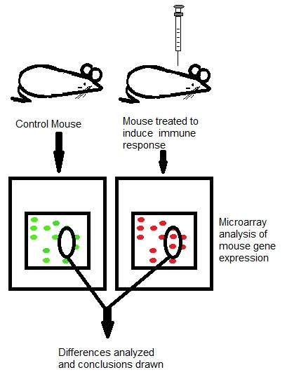 Example experiment in immunoproteomics